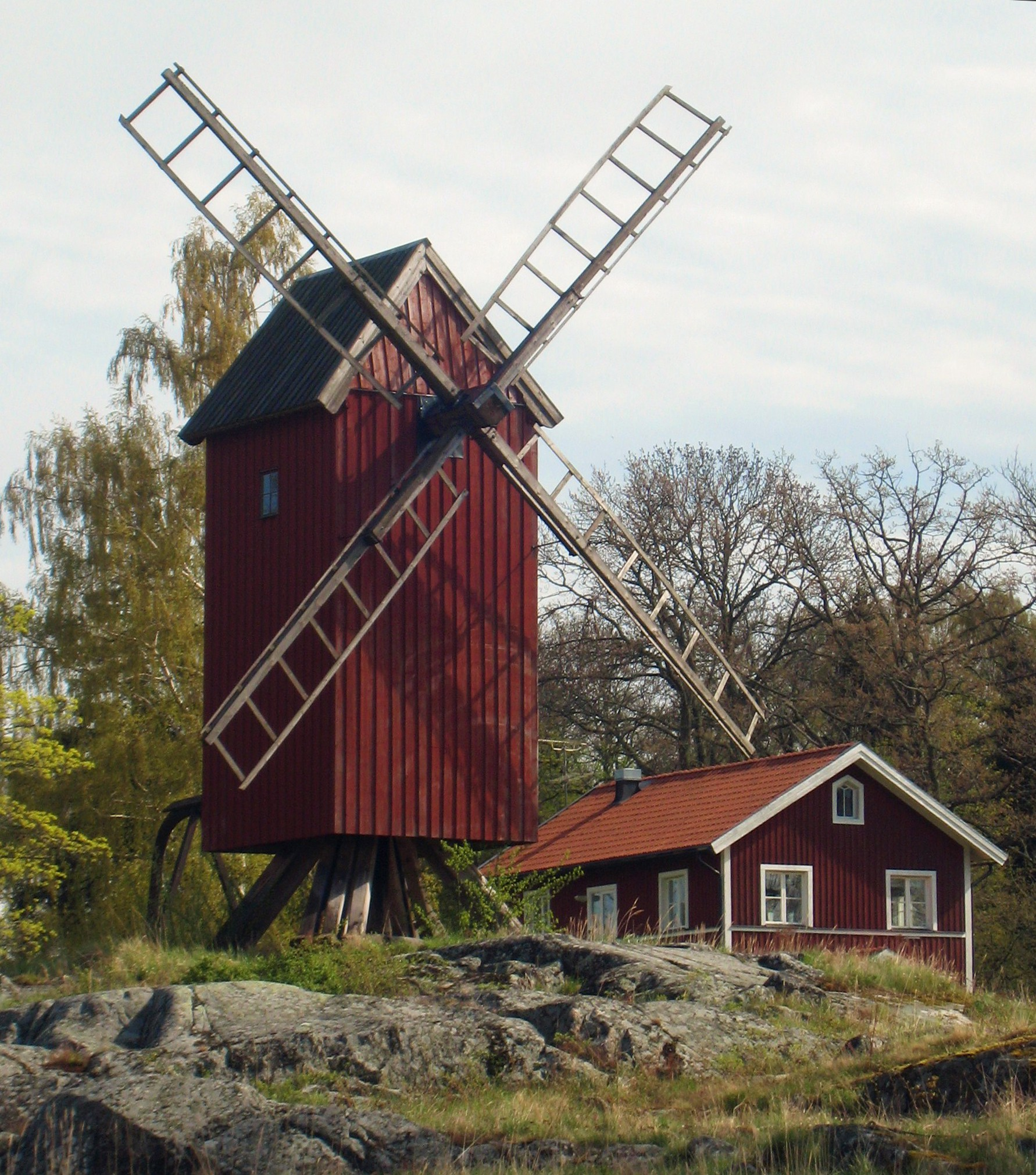 Lidö wind-mill on islet Lidö